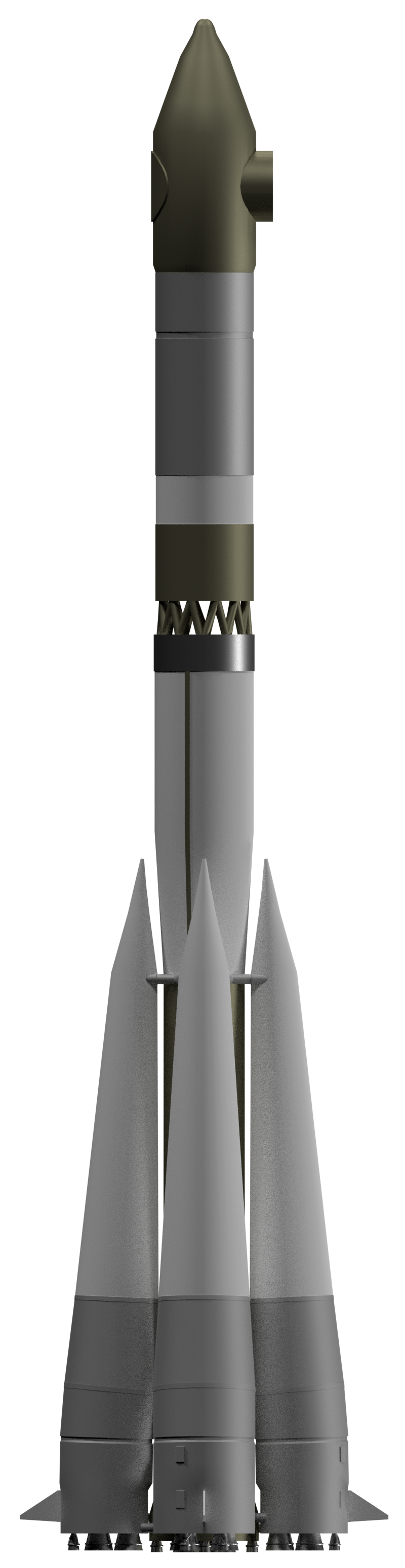 3D Render of the Voskhod Rocket